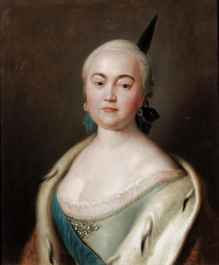 Portrait of Elizaveta Petrovna